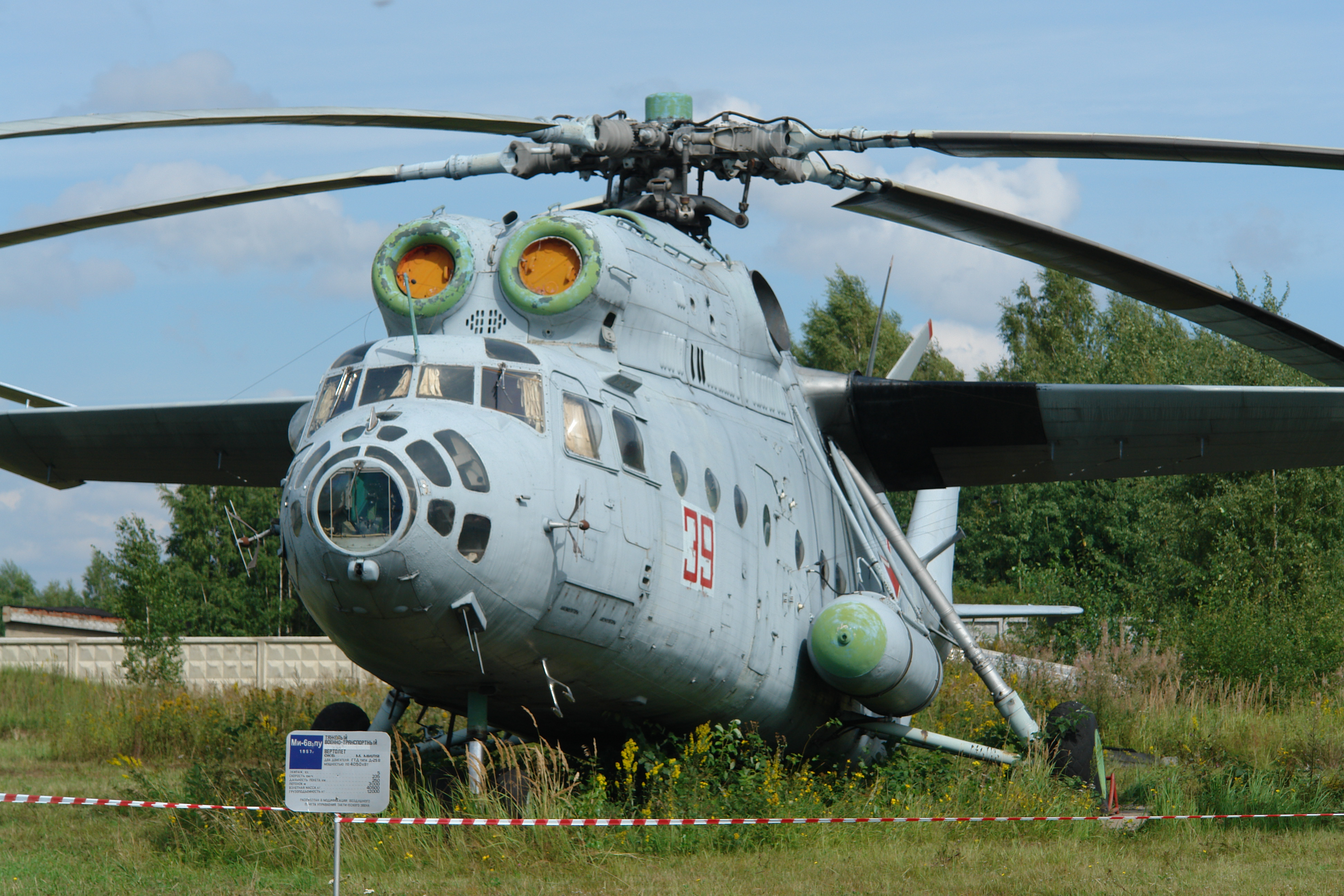 Airborne command post Mil Mi-6VzPU (Hook-D) at Monino Central Air Force Museum (Moscow).